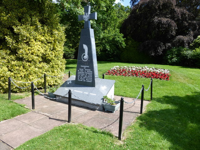 Memorial to Polish soldiers stationed in Duns 1941-44, who died in battle 1944-45. It was unveiled by General Stanislaw Maczek on 13th September 1991. Note the flower bed in the colours of Poland's national flag.